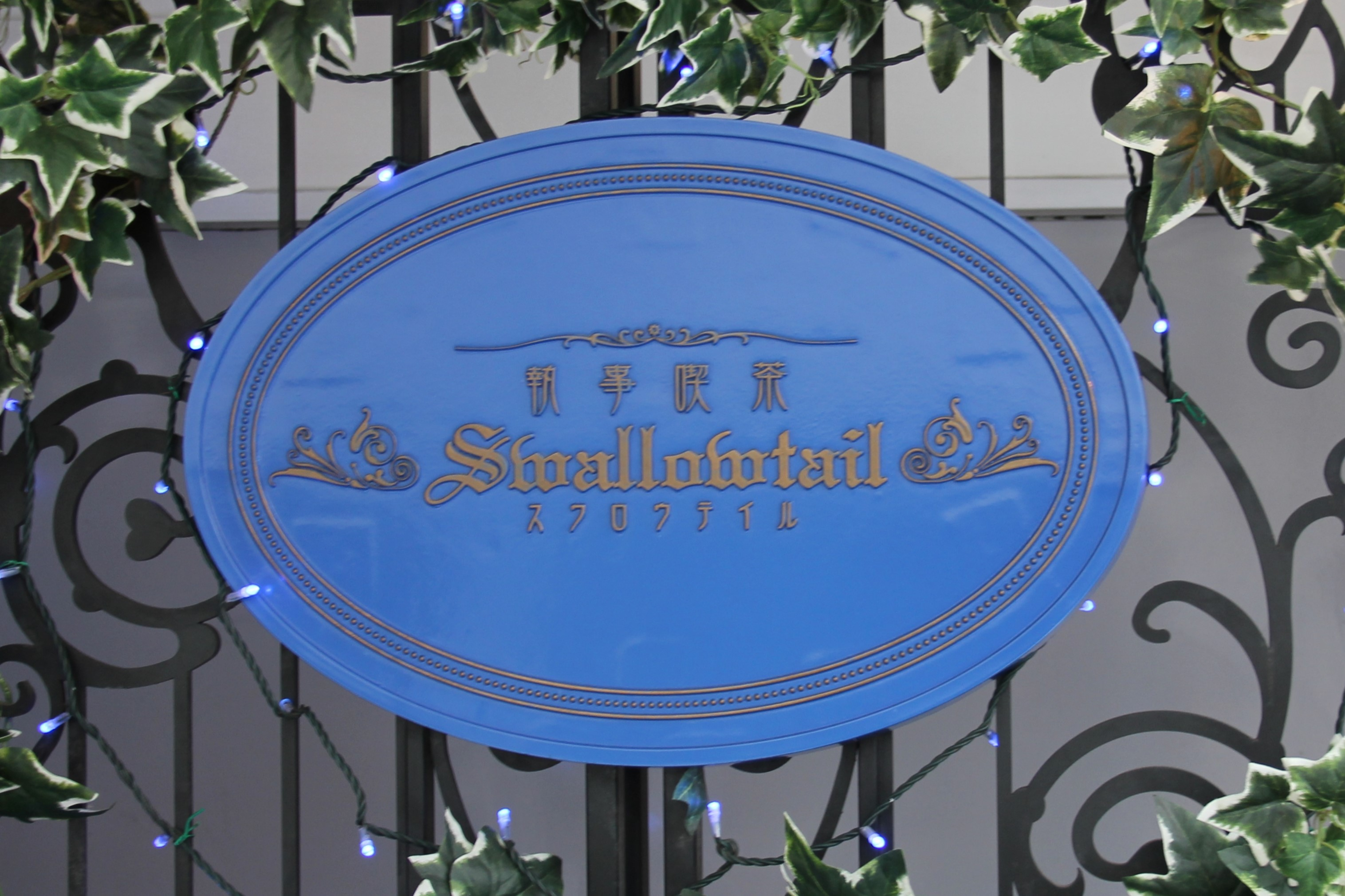 Cropped version of File:Laika ac Swallowtail Cafe (7721691820).jpg